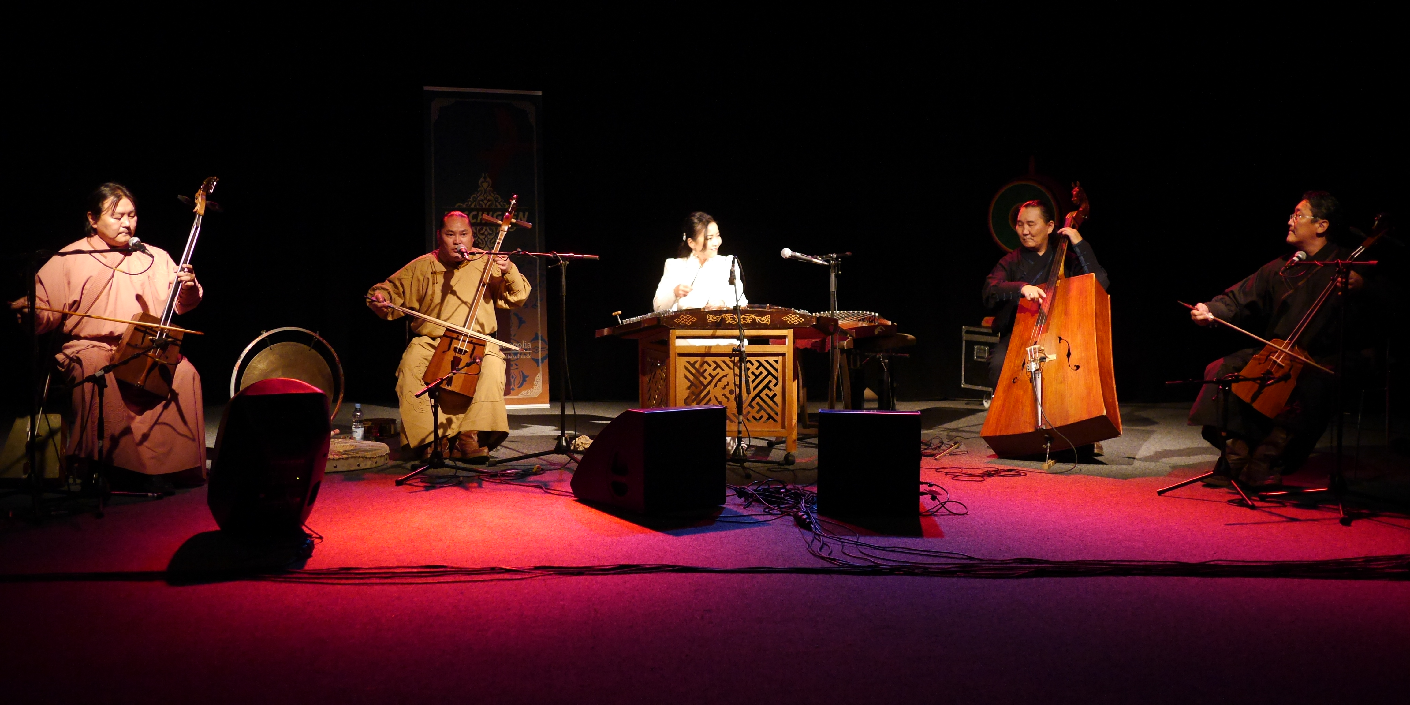 Egschiglen (Germany / Mongolia) at Klangkosmos - Weltmusik in NRW, Germany, Detmold, Hangar 21